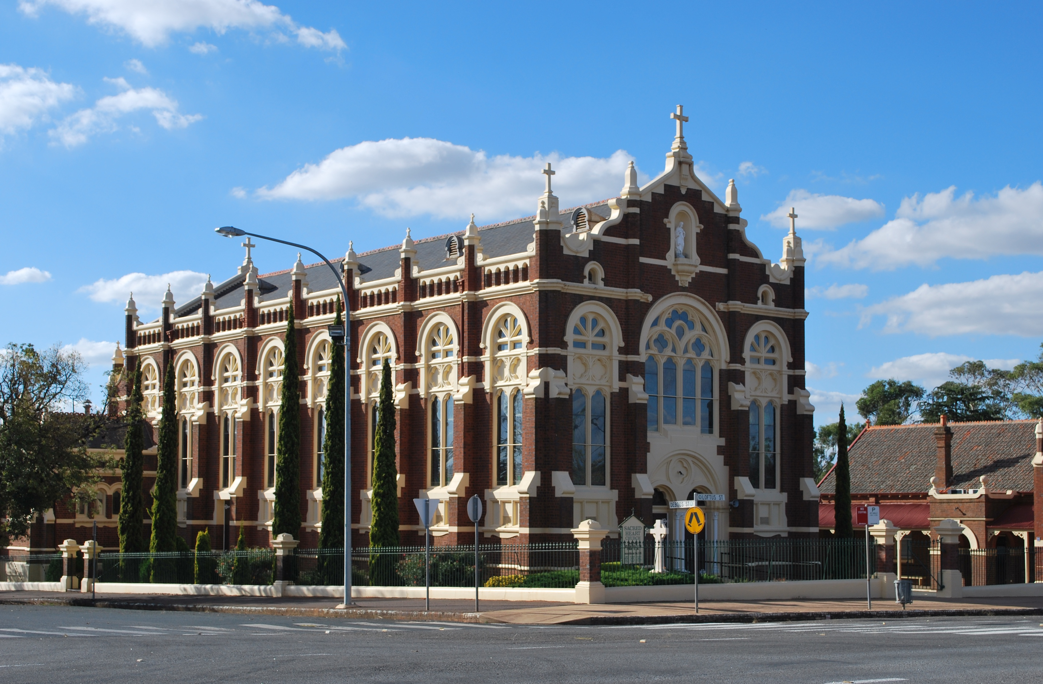 Sacred Heart Roman Catholic church at Temora, New South Wales